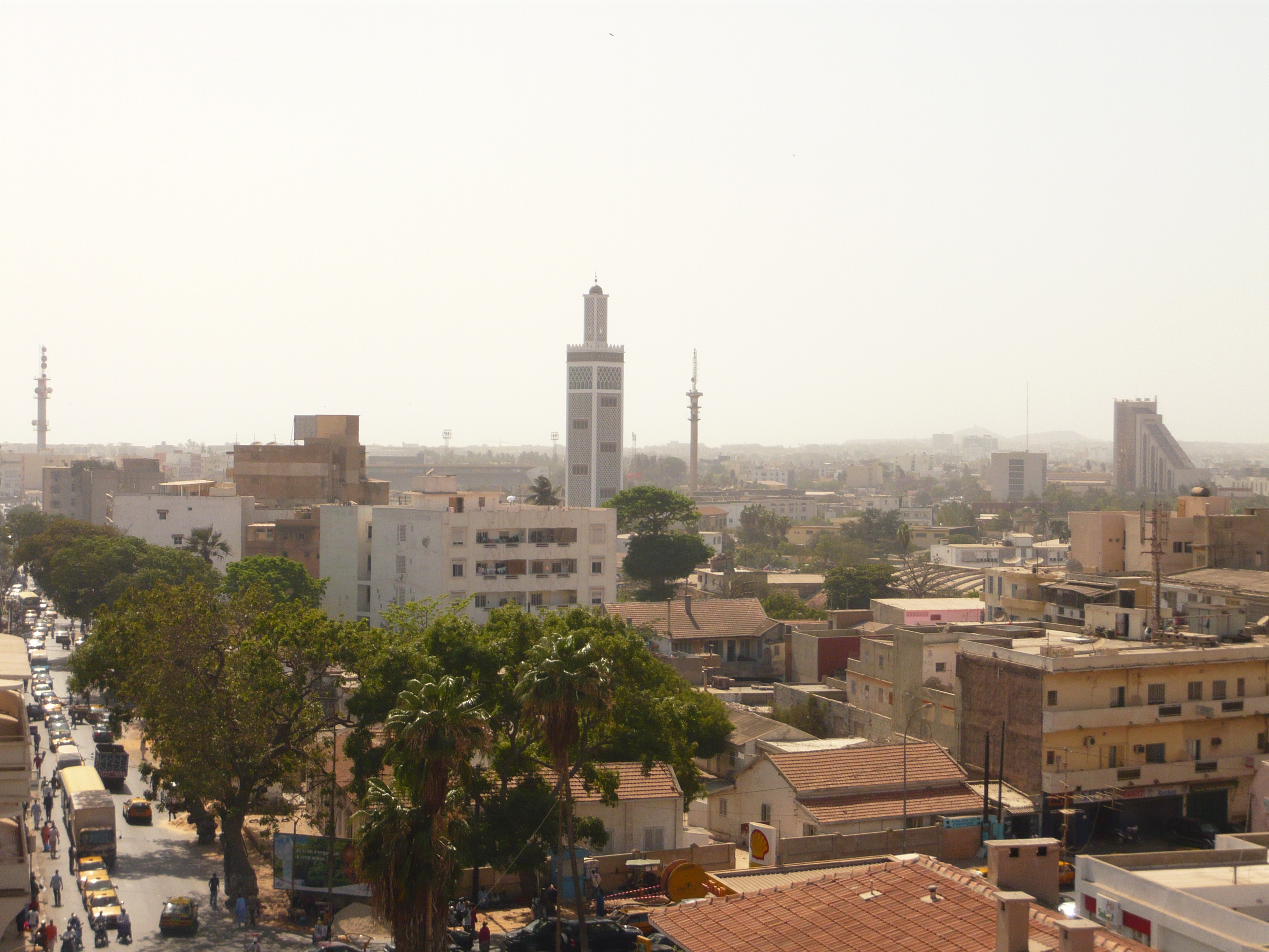 View of Dakar Skyline, Senegal